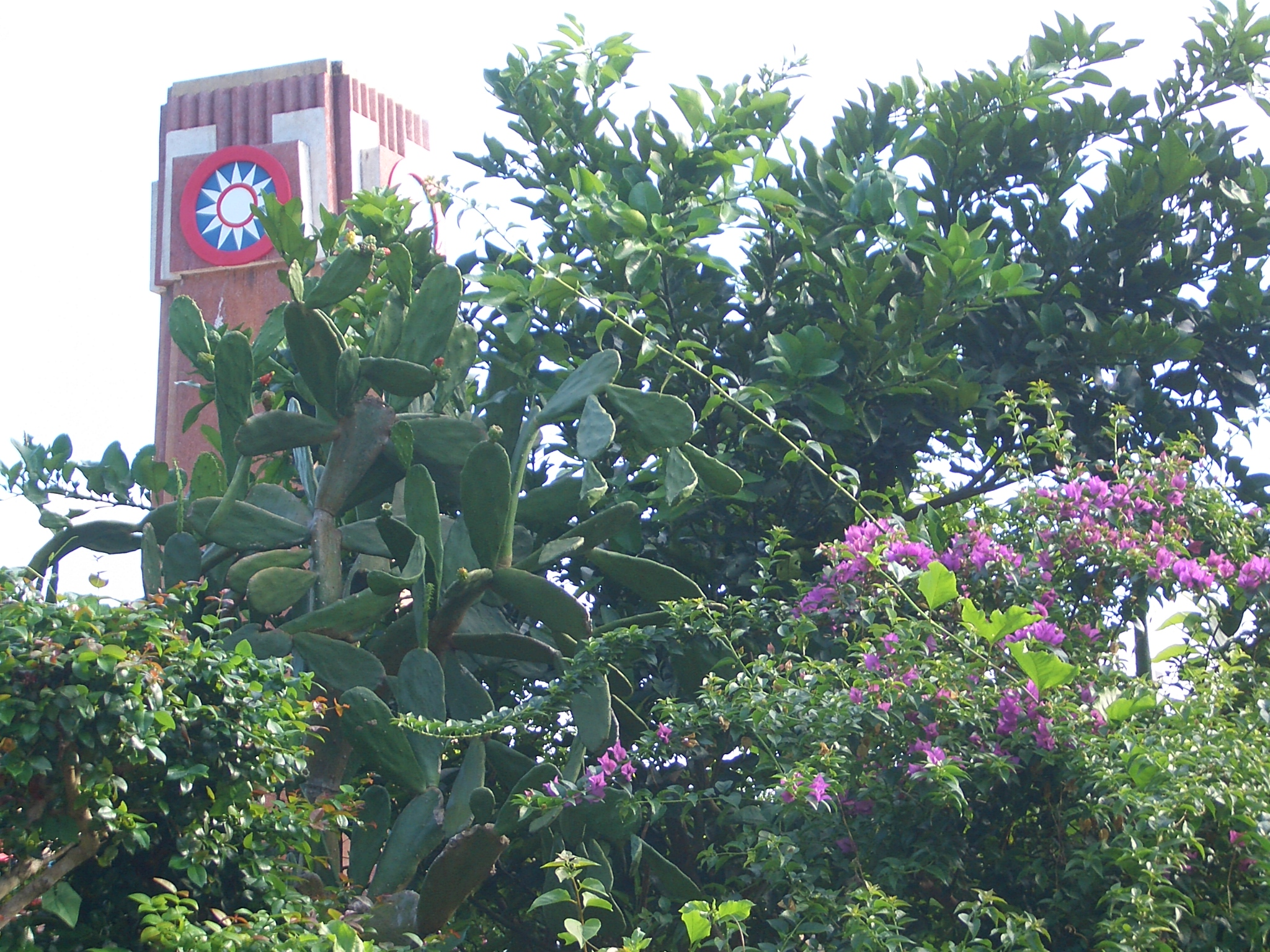 In the garden of Poh San Teng (Baoshan Ting) Temple, Melaka. The tower in the background is part of the monument to the Chinese victims of WWII